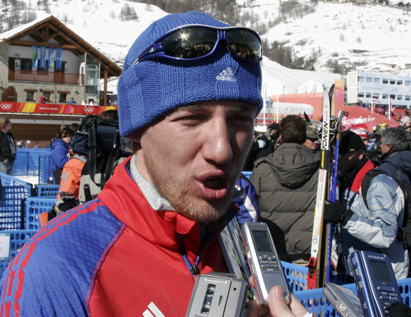 Eugeni_Dementiev